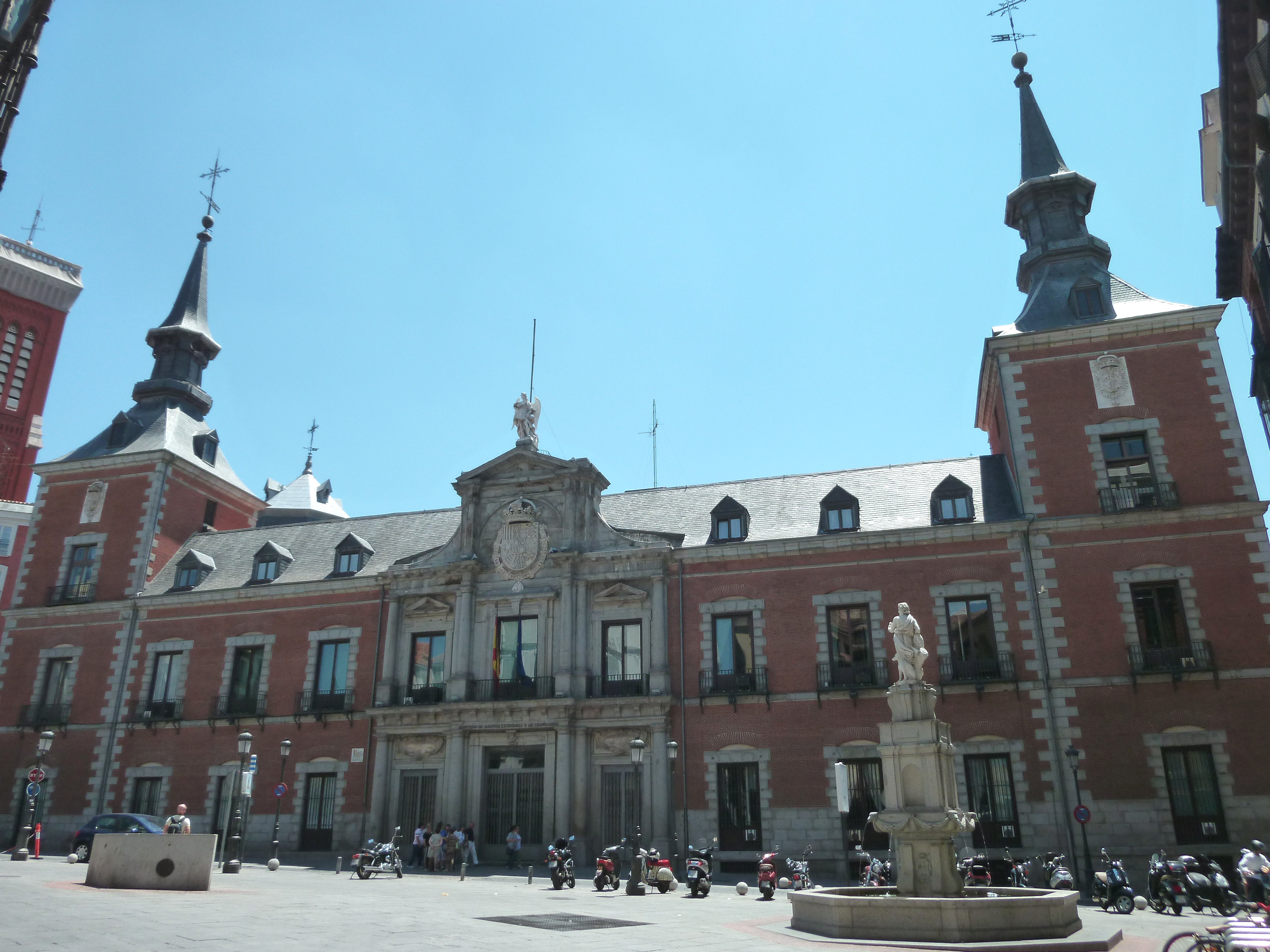 Façade of Palacio de Santa Cruz in Madrid (Spain).